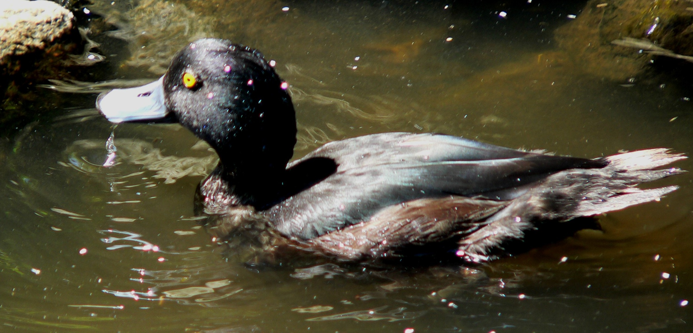 New Zealand Scaup Māori: Papango